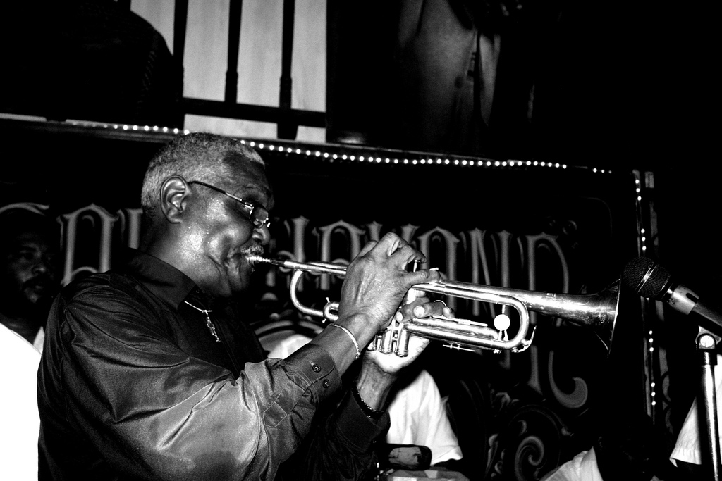 Jazz trumpet player Chocolate Armenteros Cartagena de Indias, Cafe Havana